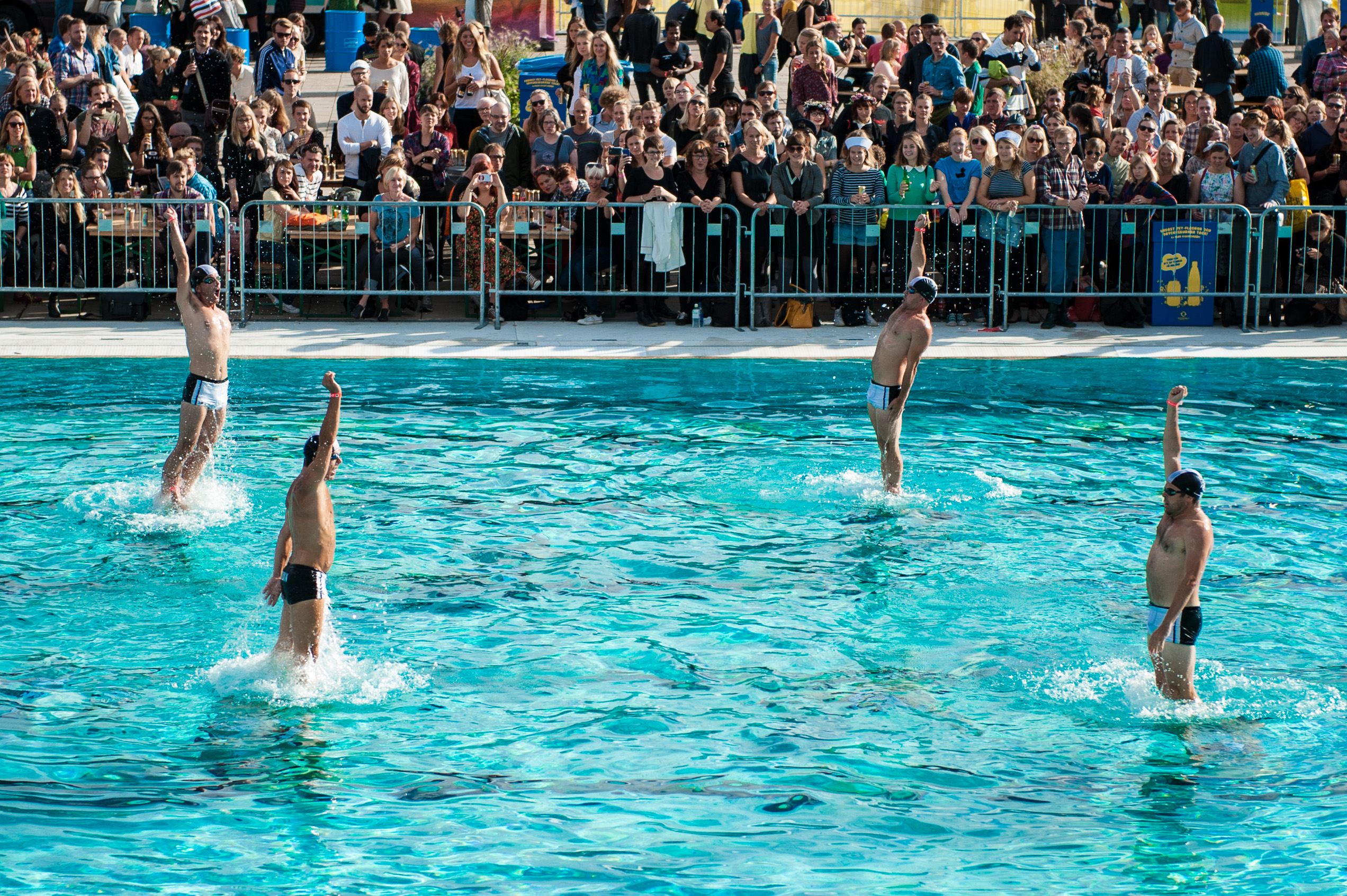 Stockholm Konstsim Herr at Popaganda 2013 in Stockholm, Sweden